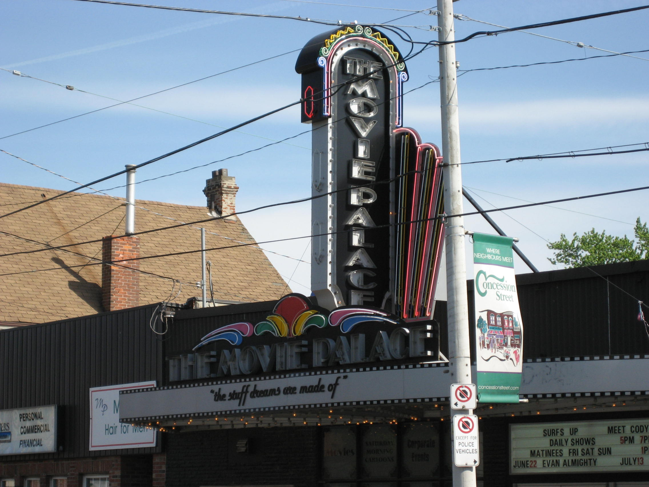 The Movie Place, Concession Street, Hamilton